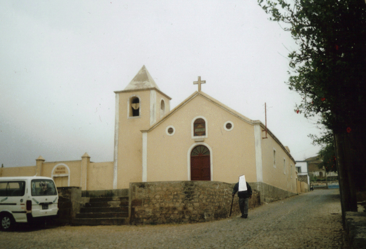 Pilgrimage Church, Nossa Senhora do Monte, Brava, Cabo Verde